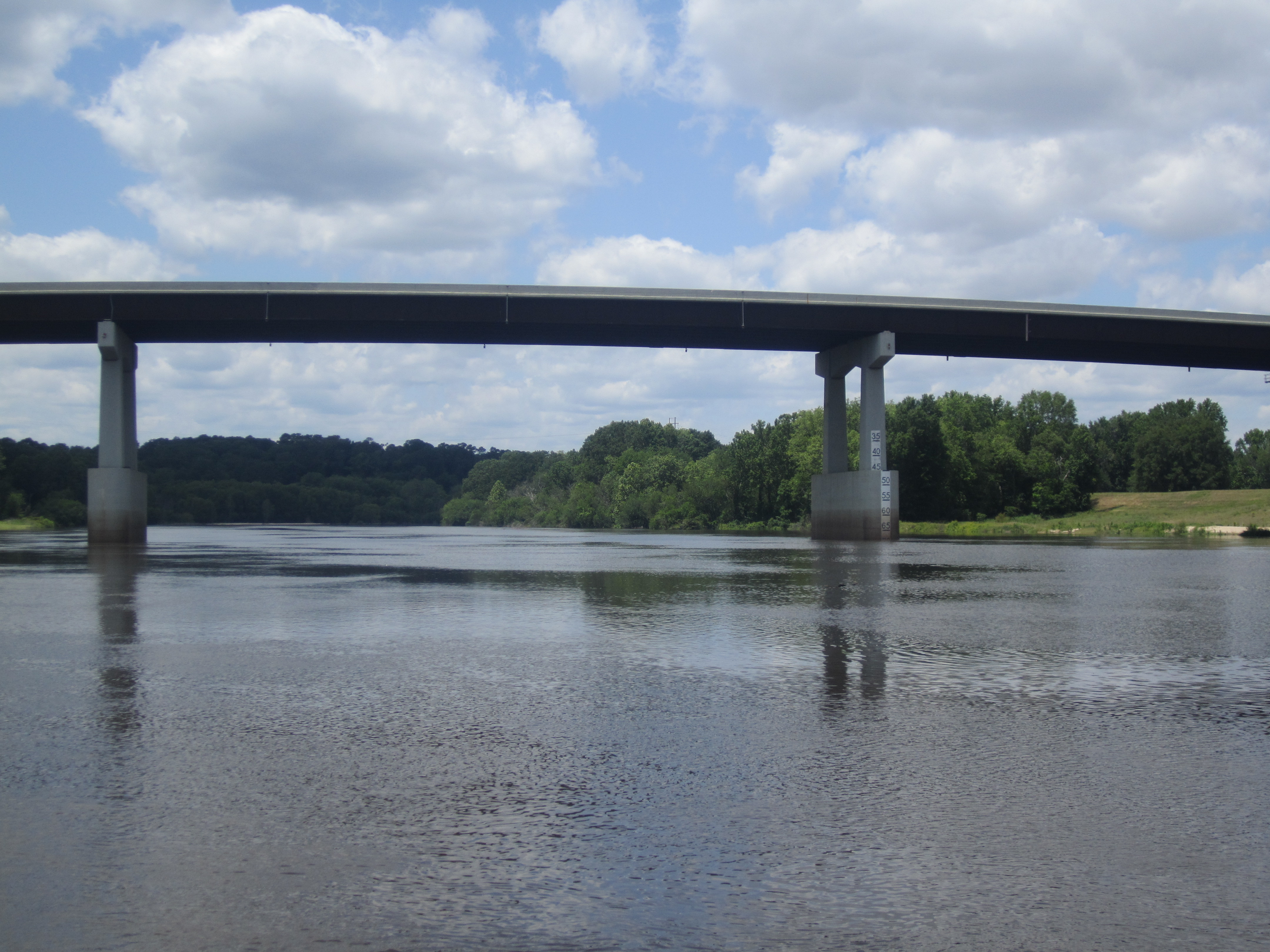 I took photo with Canon camera in Columbia, LA. It is the John McKeithen Bridge over the Ouachita River.